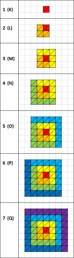 Electron subshells. 1 rectangular triangle (1/2 of a cell) = 1 electron. Red - 0 (s); orange - 1 (p); yellow - 2 (d); green - 3 (f); blue - 4 (g); indigo - 5 (h); violet - 6 (i).